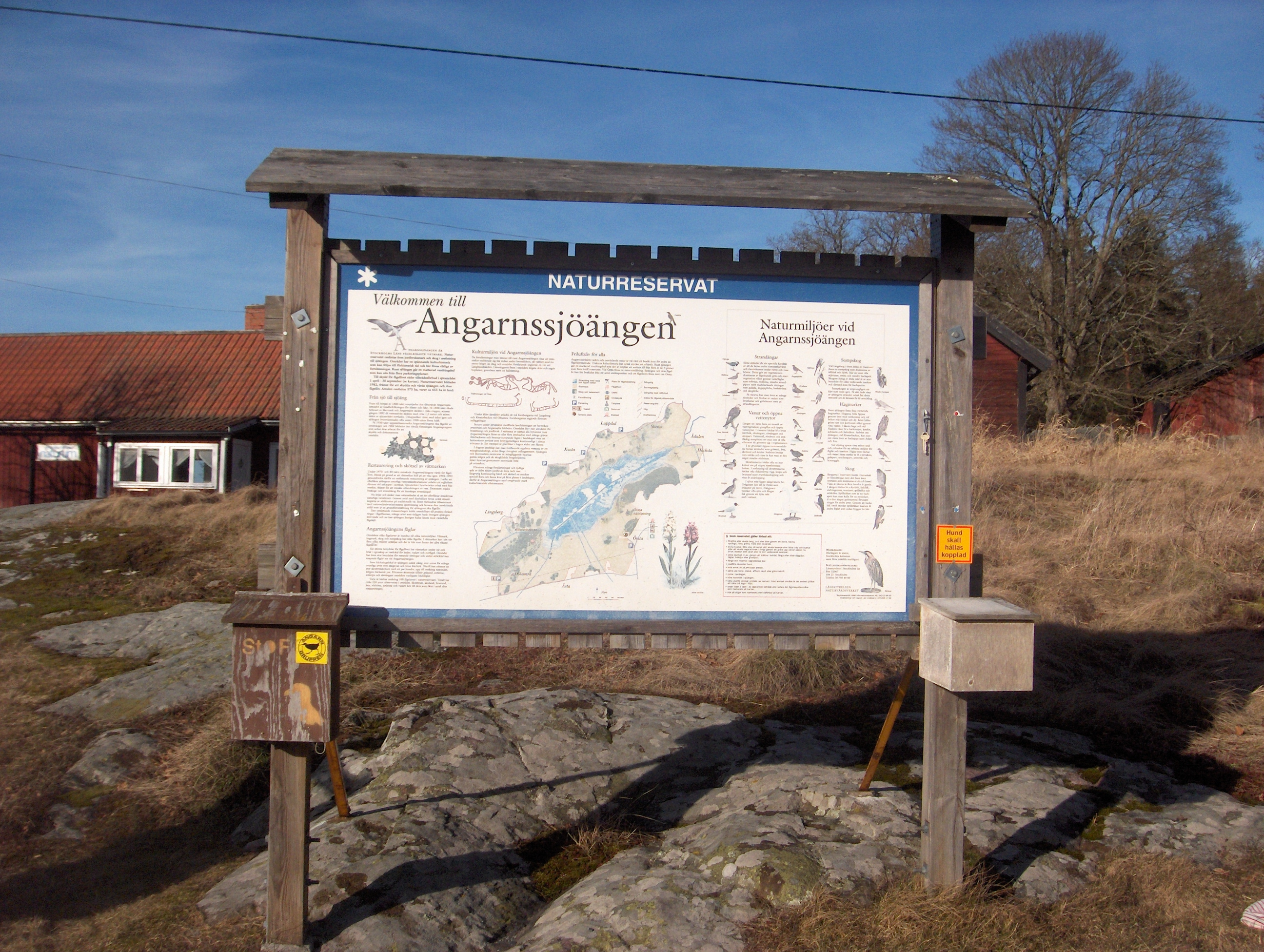 "Entrance" to Angarnsjöängen in Stockholm, Sweden. Photographed by me in spring 2008.